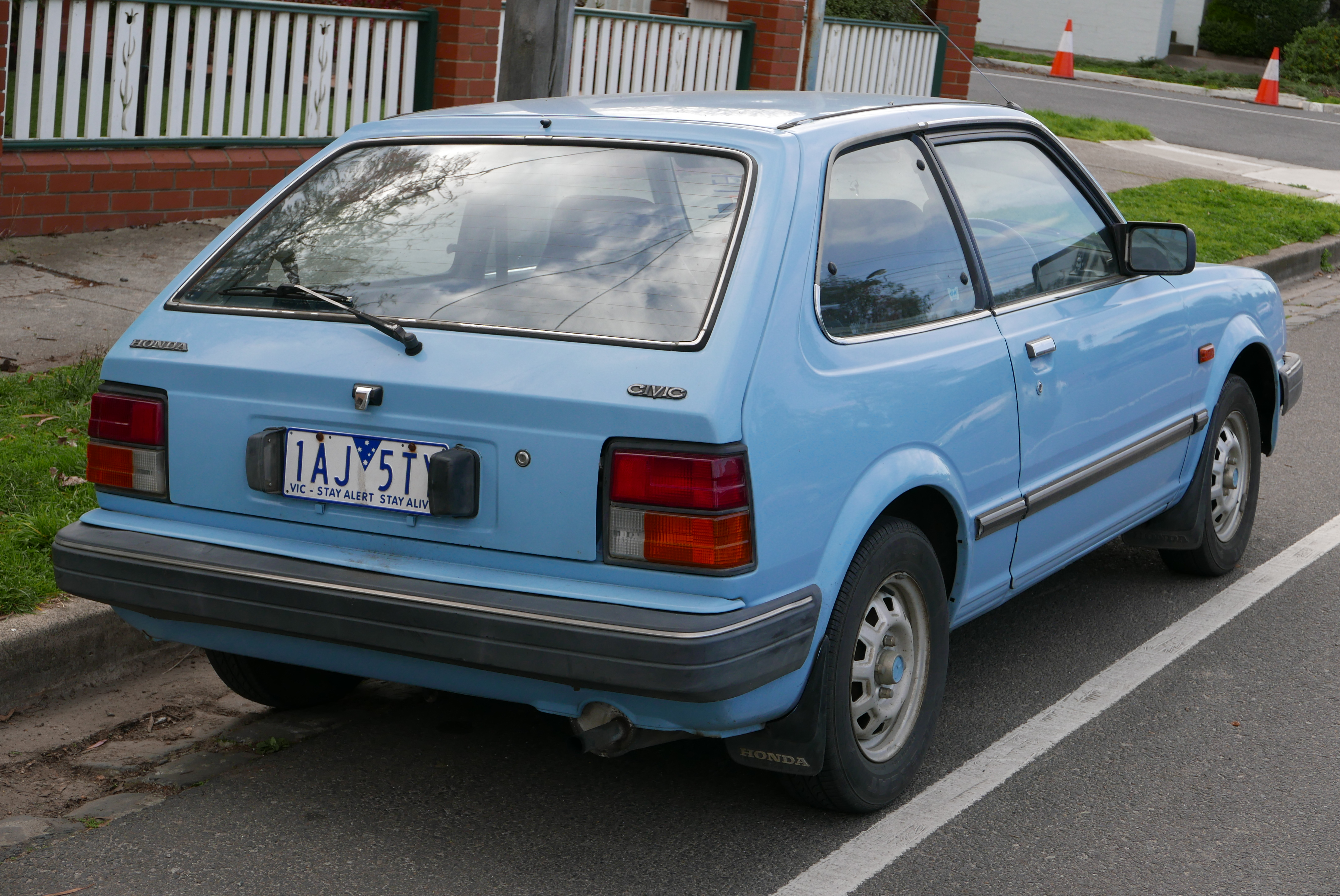 1982 Honda Civic 3-door hatchback. Photographed in Northcote, Victoria, Australia. Vehicle registration enquiry results Jurisdiction Victoria Registration 1AJ5TY Chassis code JHMASL5320S209324 Engine code EN11819973 Compliance date 1982-02 Year of manufacture 1982